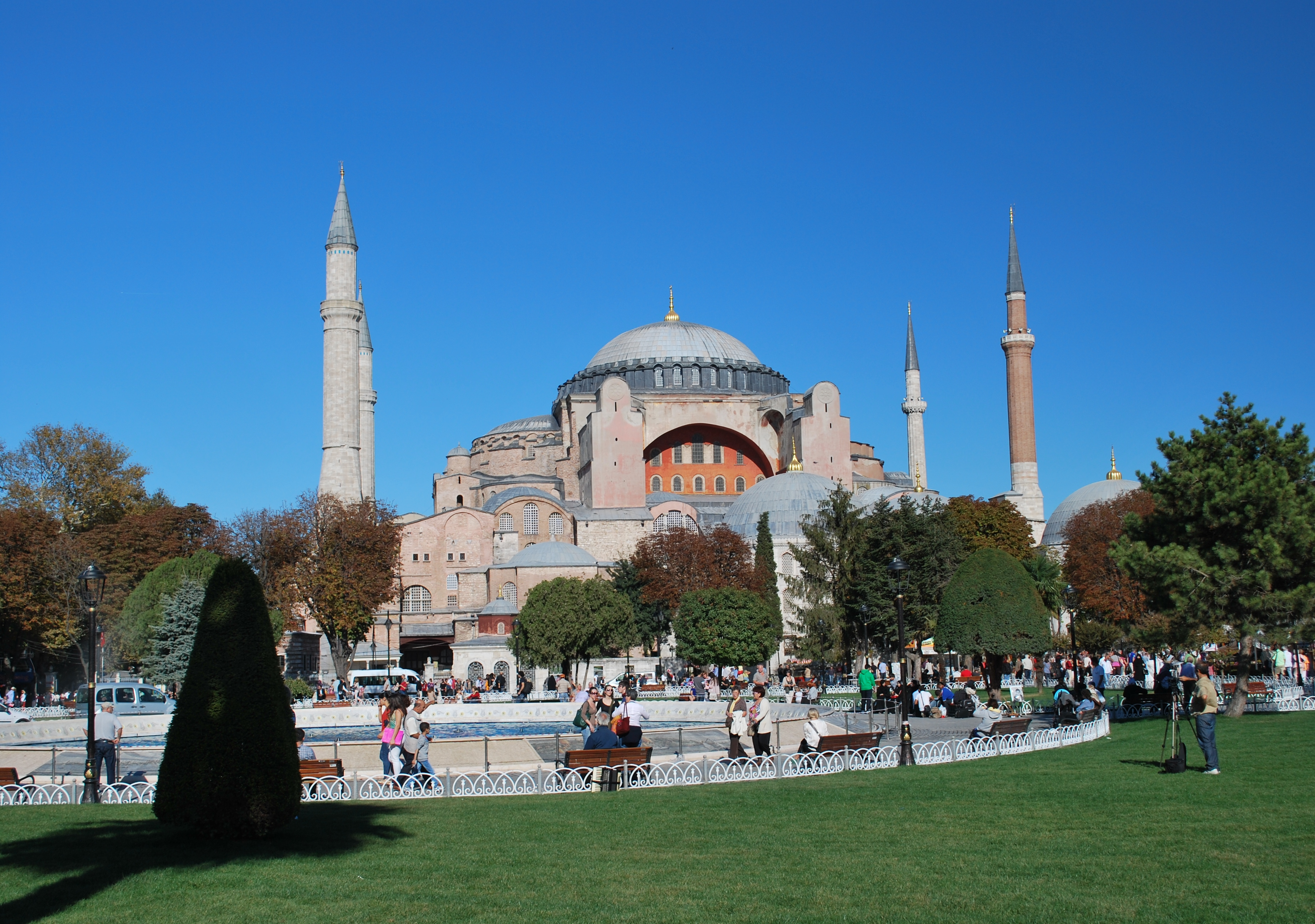 Hagia Sophia, seen from the Sultanameht Square (Hippodrome) side